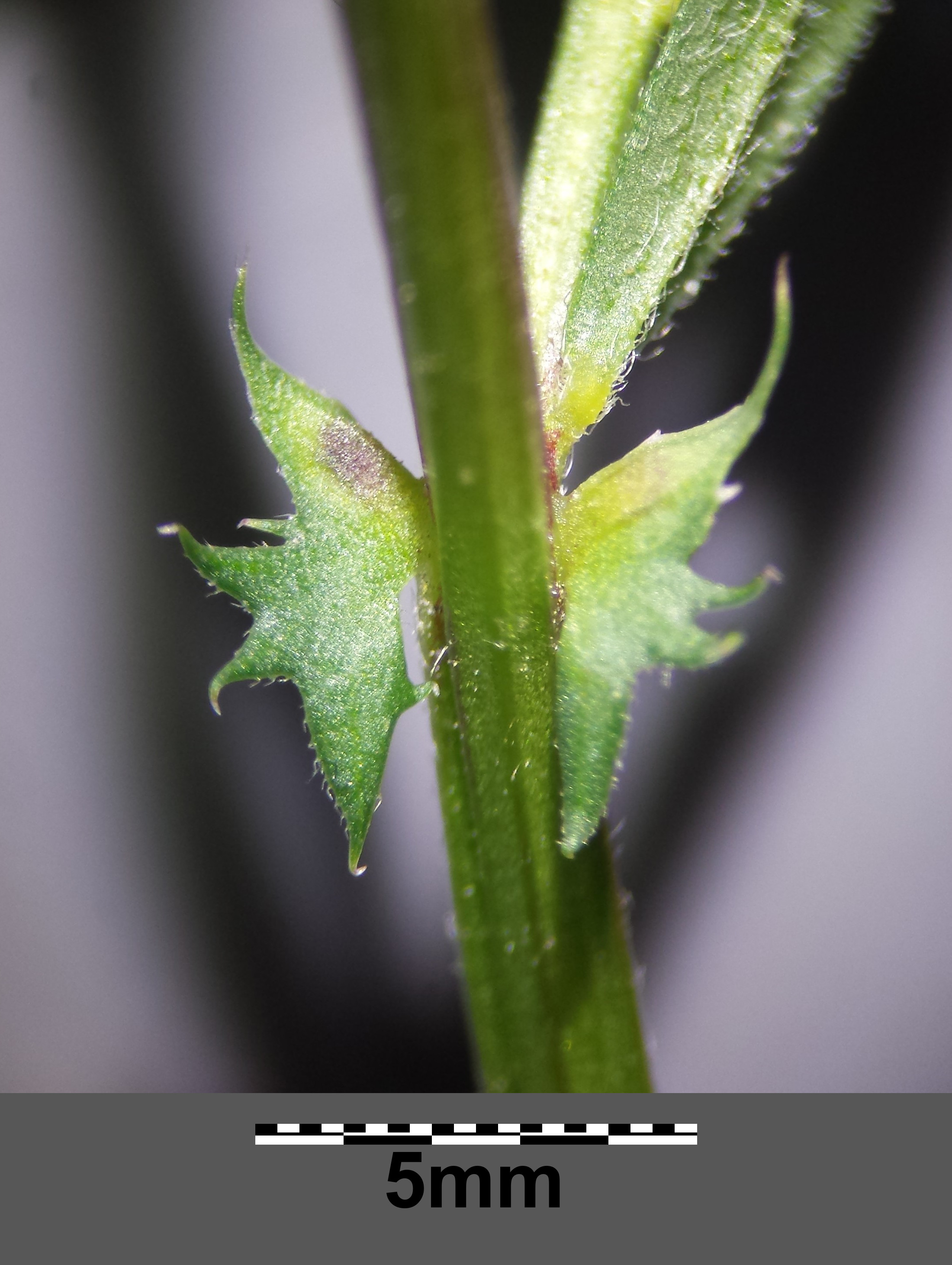 Stem with stipules Taxonym: Vicia angustifolia subsp. segetalis ss Fischer et al. EfÖLS 2008 ISBN 978-3-85474-187-9 Location: Neue Donau, Vienna-Floridsdorf - ca. 160 m a.s.l. Habitat: dry slope